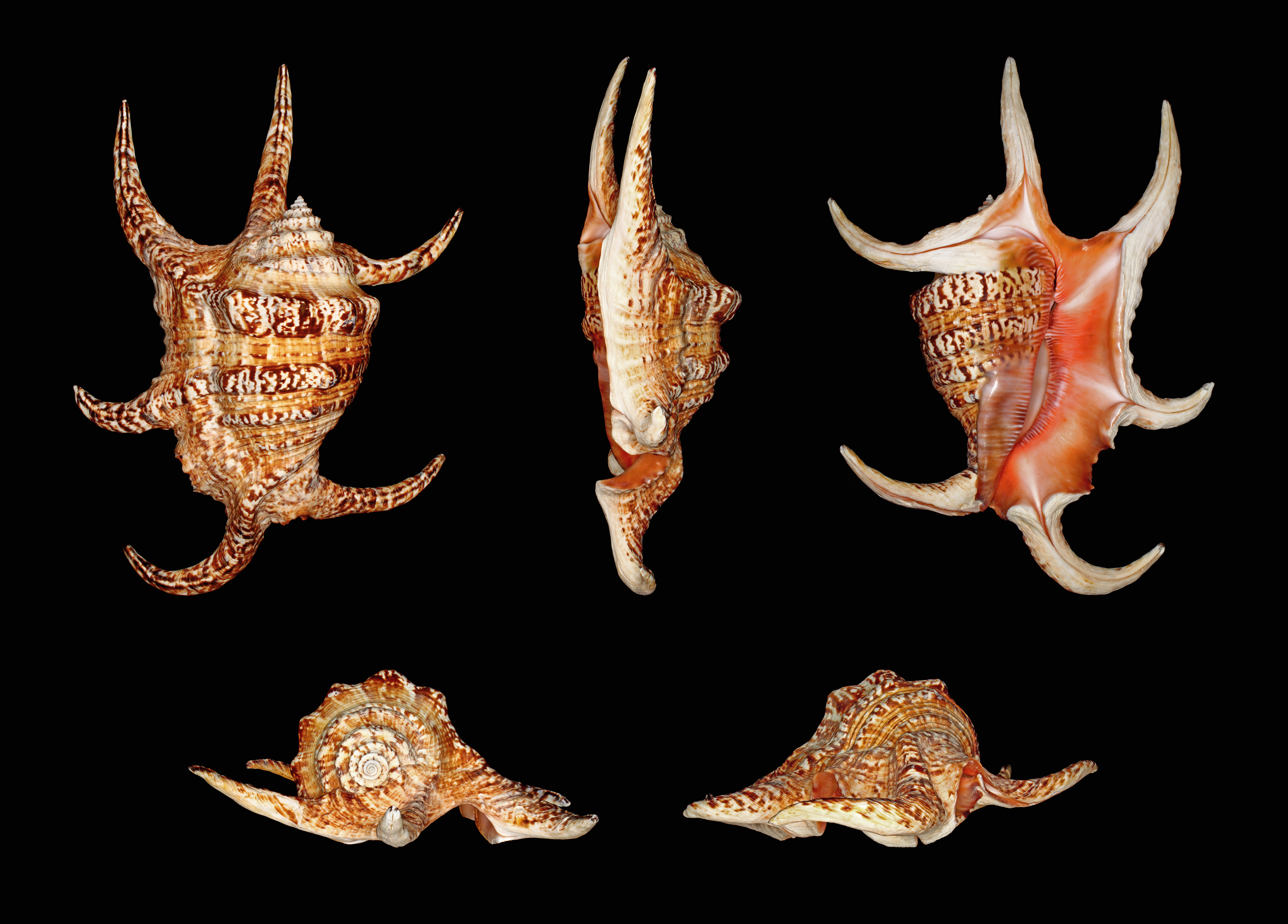 Harpago chiragra, Strombidae, Chiragra Spider Conch; Length 19 cm; Originating from Samar, Eastern Visayas, Philippines; Shell of own collection, therefore not geocoded. Dorsal, lateral (right side), ventral, back, and front view. This picture consists of 5 photos. The metadata refer to the dorsal view. Software: Adobe Photoshop, Combine ZM